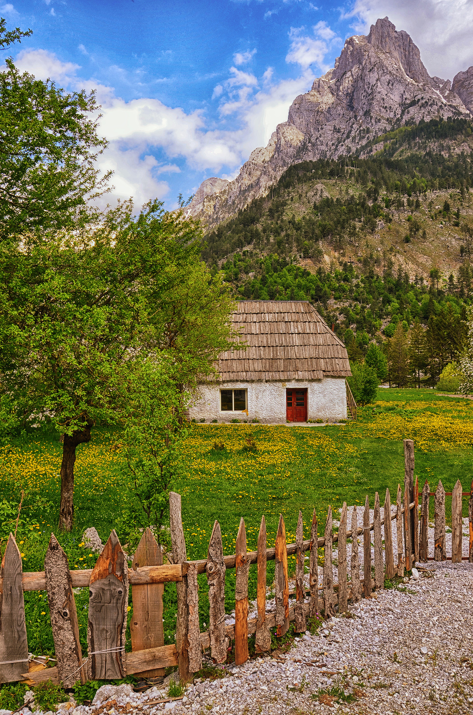 House in the Valbona Valley in Valbonë, Tropojë, Albania